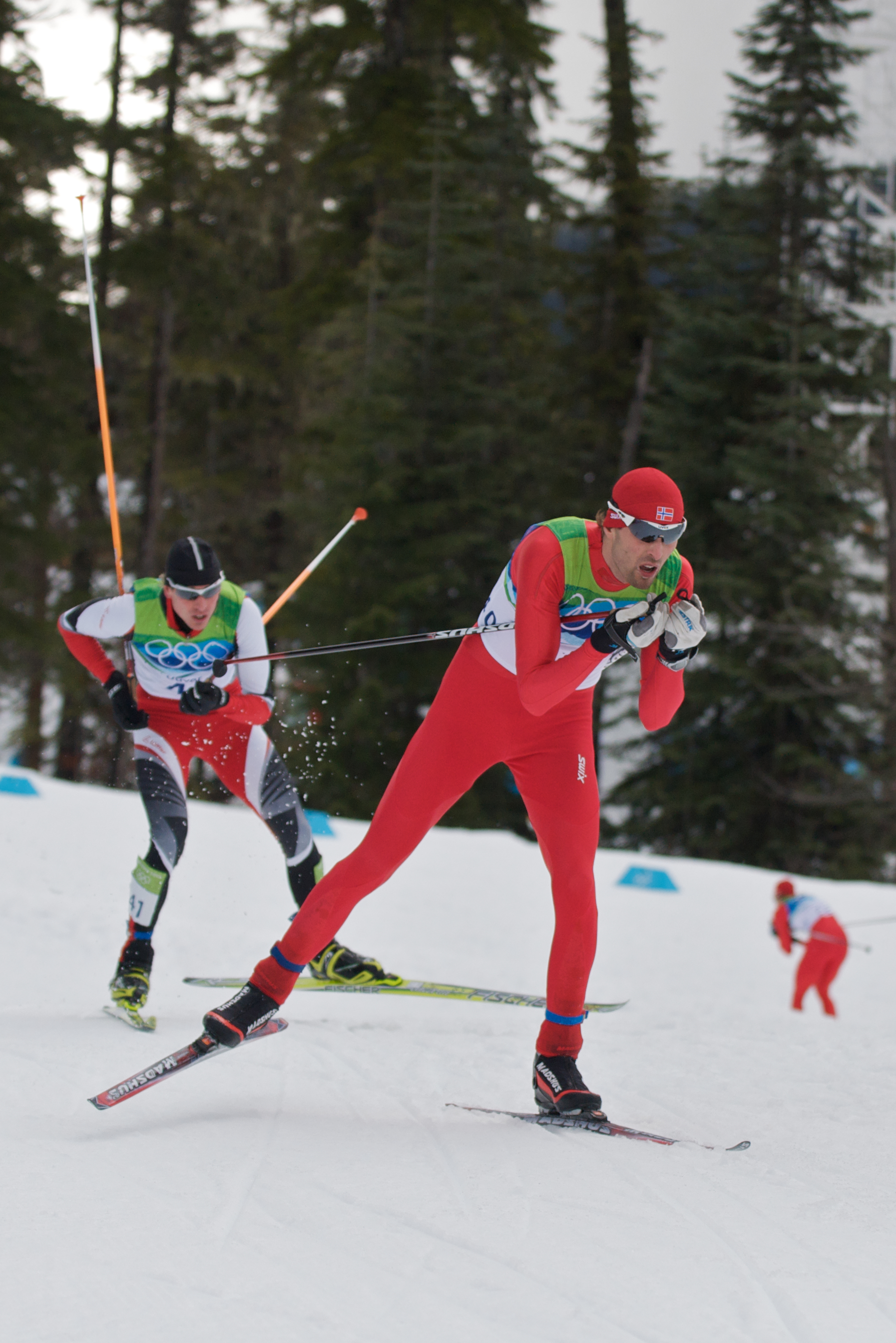 Nordic combined skiers Magnus Moan (NOR - leading) and Felix Gottwald (AUT - following) at the 2010 Winter Olympics during the individual normal hill/10 km event (Moan finished 9th, Gottwald 14th).